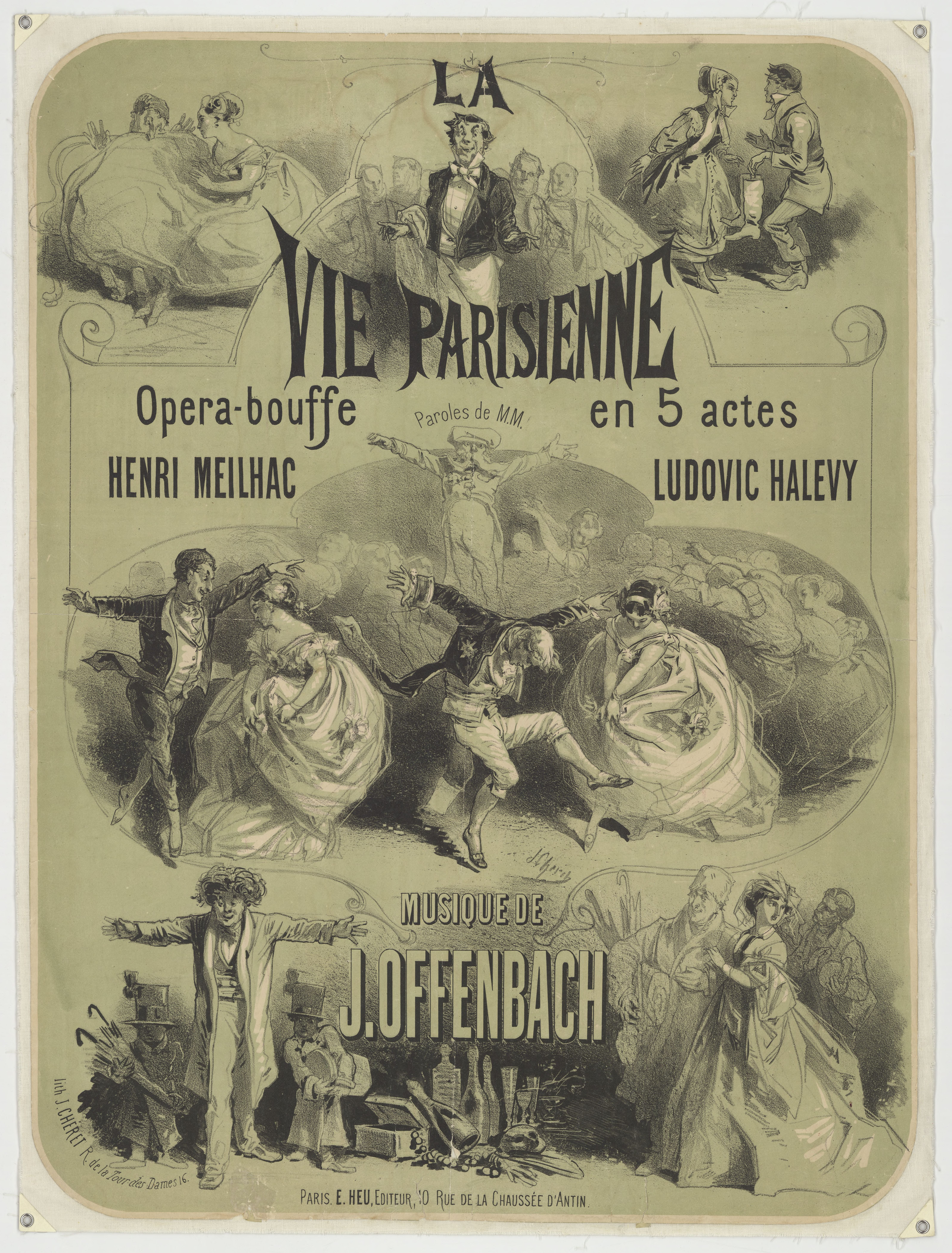 Poster for Jacques Offenbach's La Vie parisienne, for its original 1866 production. Lithograph, 70 x 55 cm. Published by Imp. J. Chéret (Paris).